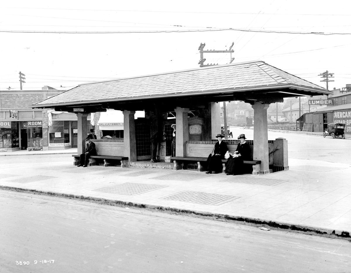 The City built this combination streetcar stop and comfort station in 1917 for $26,000. The stairway on the right led to the women’s restroom, located below the sidewalk level; the men’s restroom entrance was on the opposite side. [href=" Item 1447], Engineering Department Photographic Negatives (Record Series 2613-07), Seattle Municipal Archives.